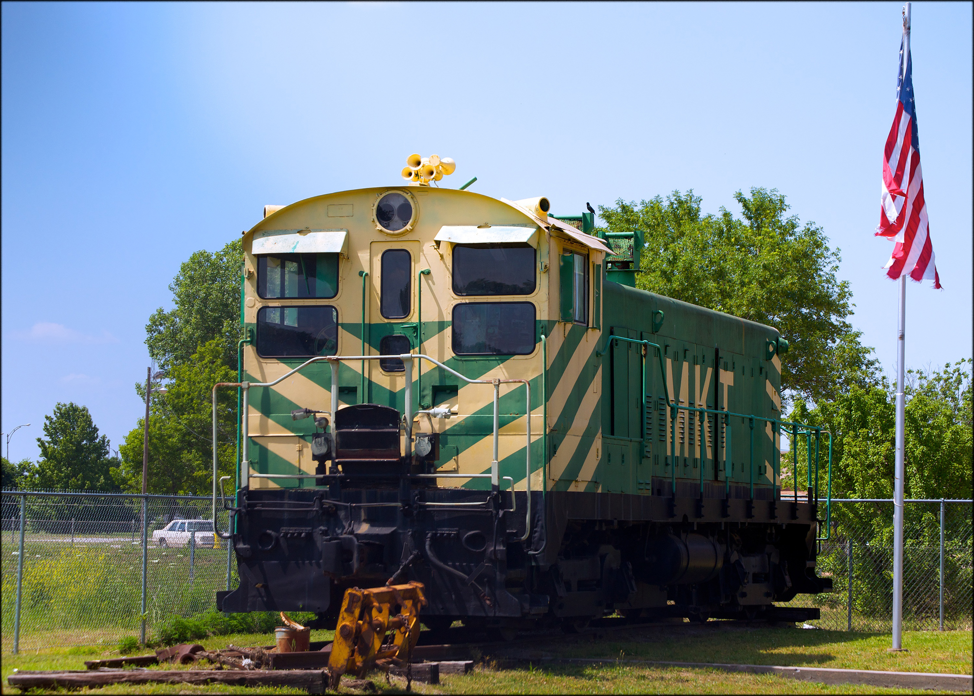 An old Katy Railroad Switcher parked in the back of a museum in Parsons, KS. The locomotive is a Baldwin DS-4-4-1000.